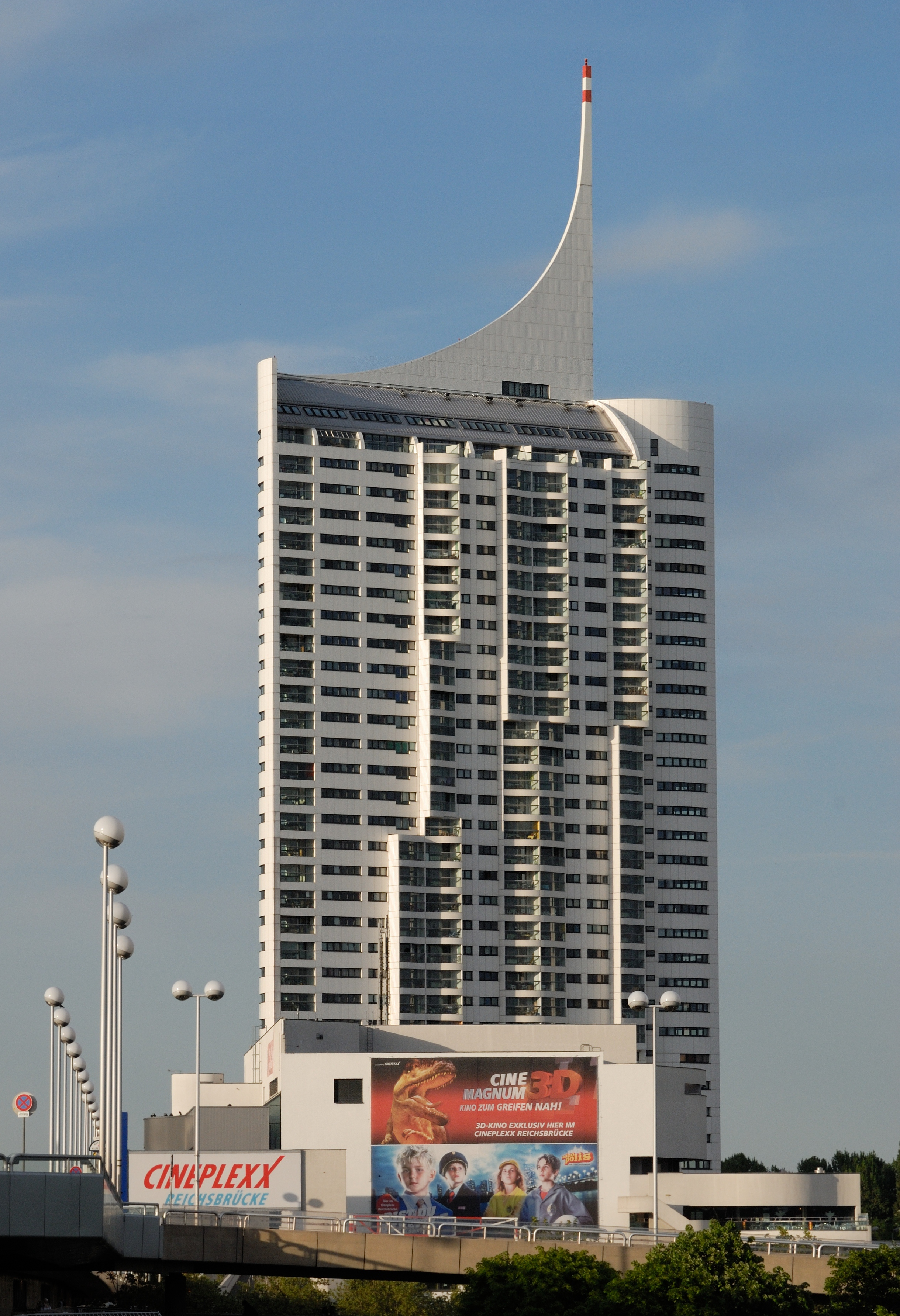 tower building Neue Donau, part of the Donaucity, Vienna - Austria